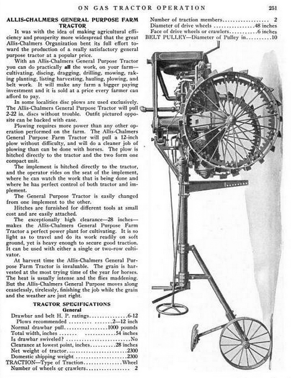 An illustration from an instructional overview on the Allis-Chalmers 6-12 tractor, contributed to Adams's textbook by the builders of the tractor, Allis-Chalmers , 1920.